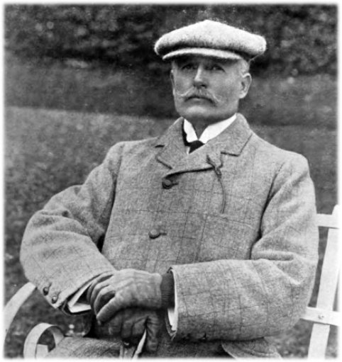 Alec Taylor, Jr. at his estate in June 1910.